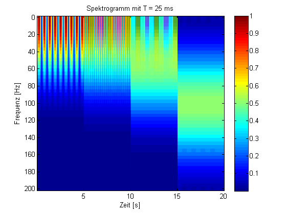 For the english version see STFT colored spectrogram 25ms.png